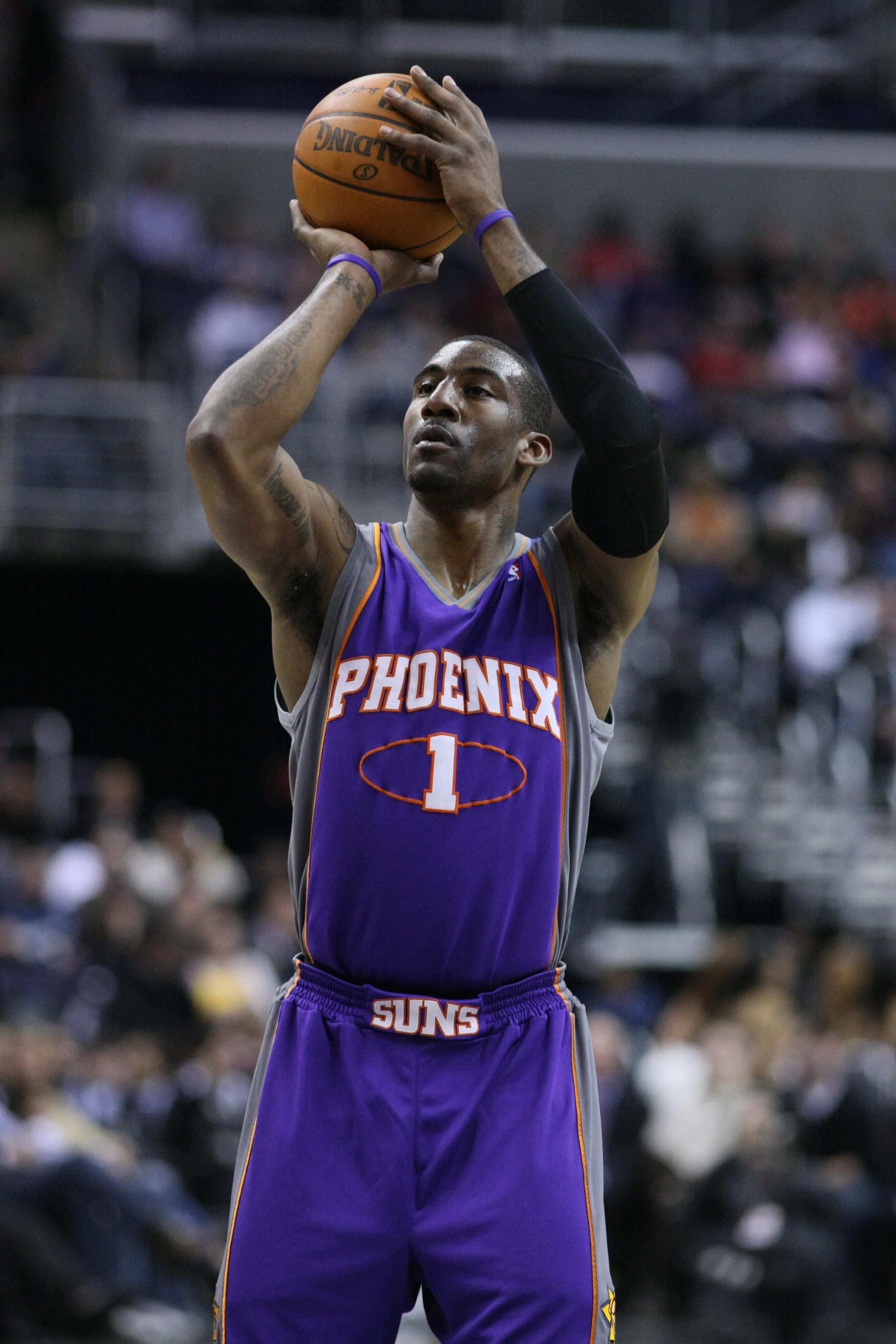 Amare Stoudemire, Phoenix Suns, 2008-09